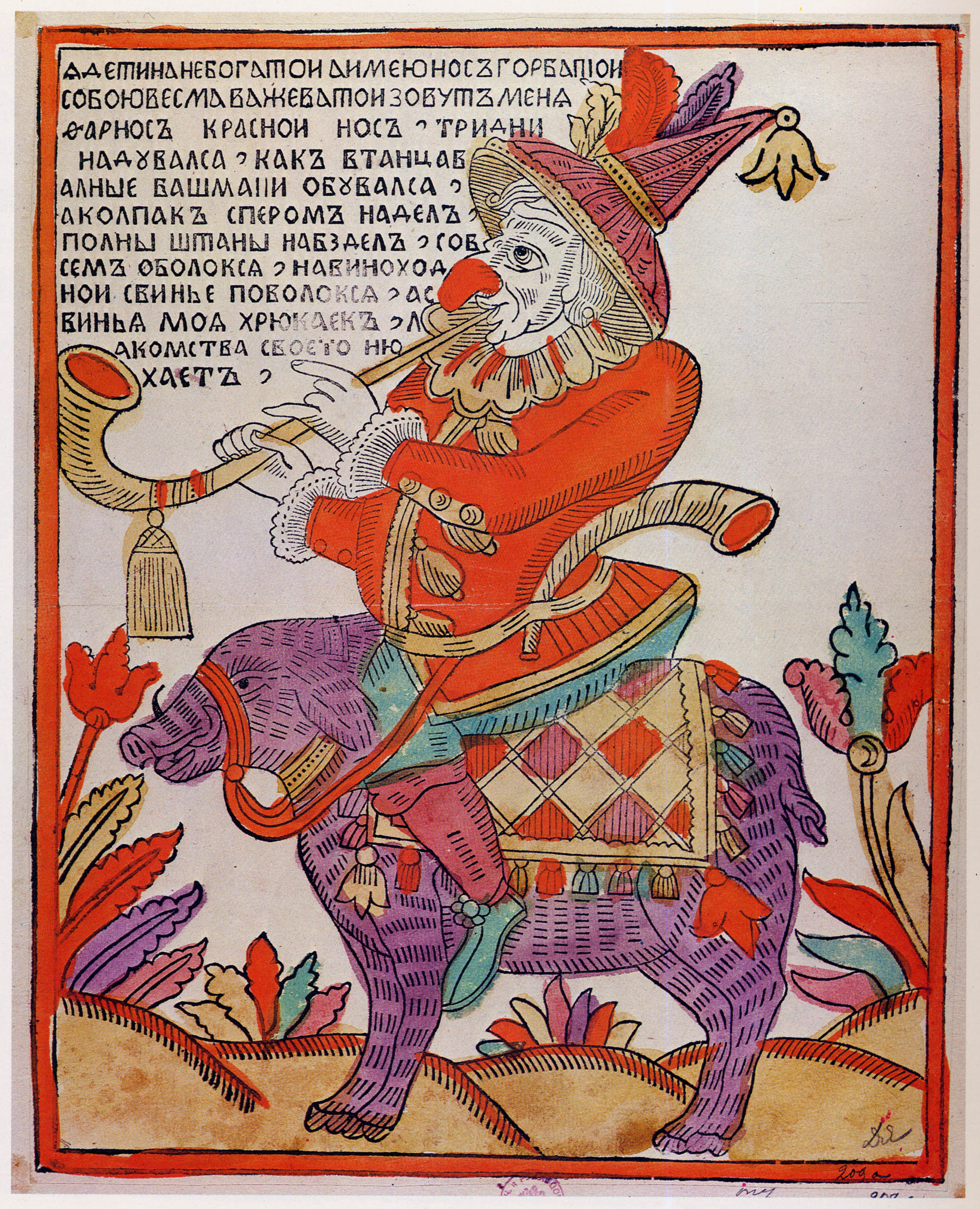 Farnos the Red Nose. Russian humorous lubok depicting a pig-riding jester.